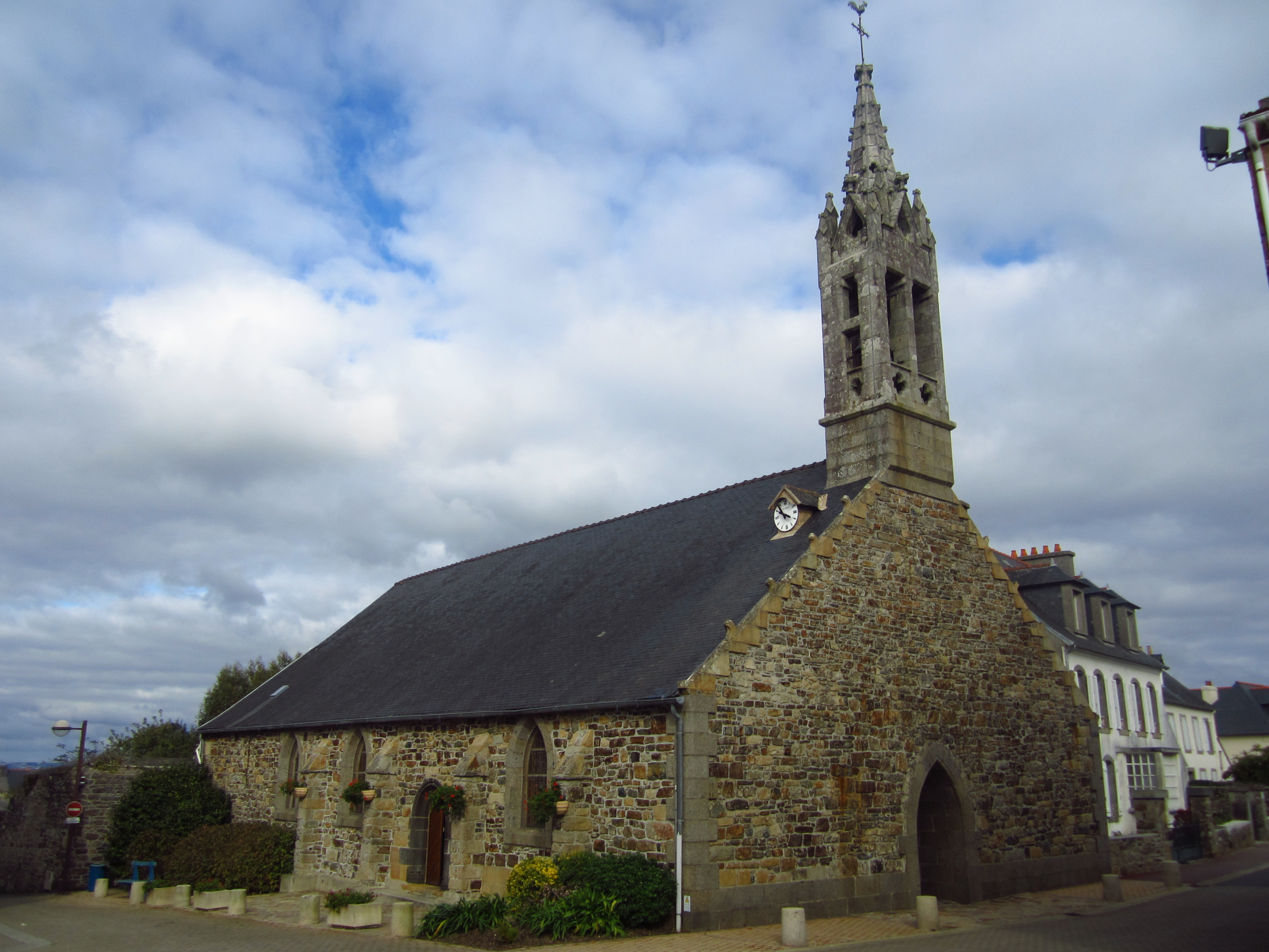 Church of Lanvéoc, Finistère